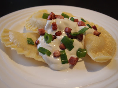 Pierogi with Bryndza (salty sheep cheese) from Slovakia